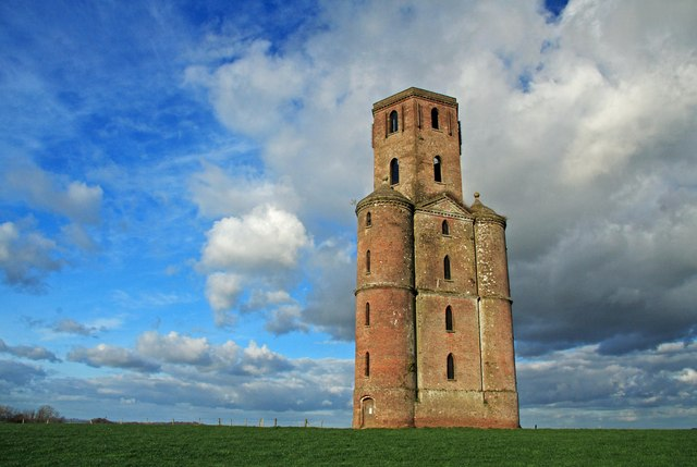 Horton Tower, near to Chalbury Common, Dorset, Great Britain.